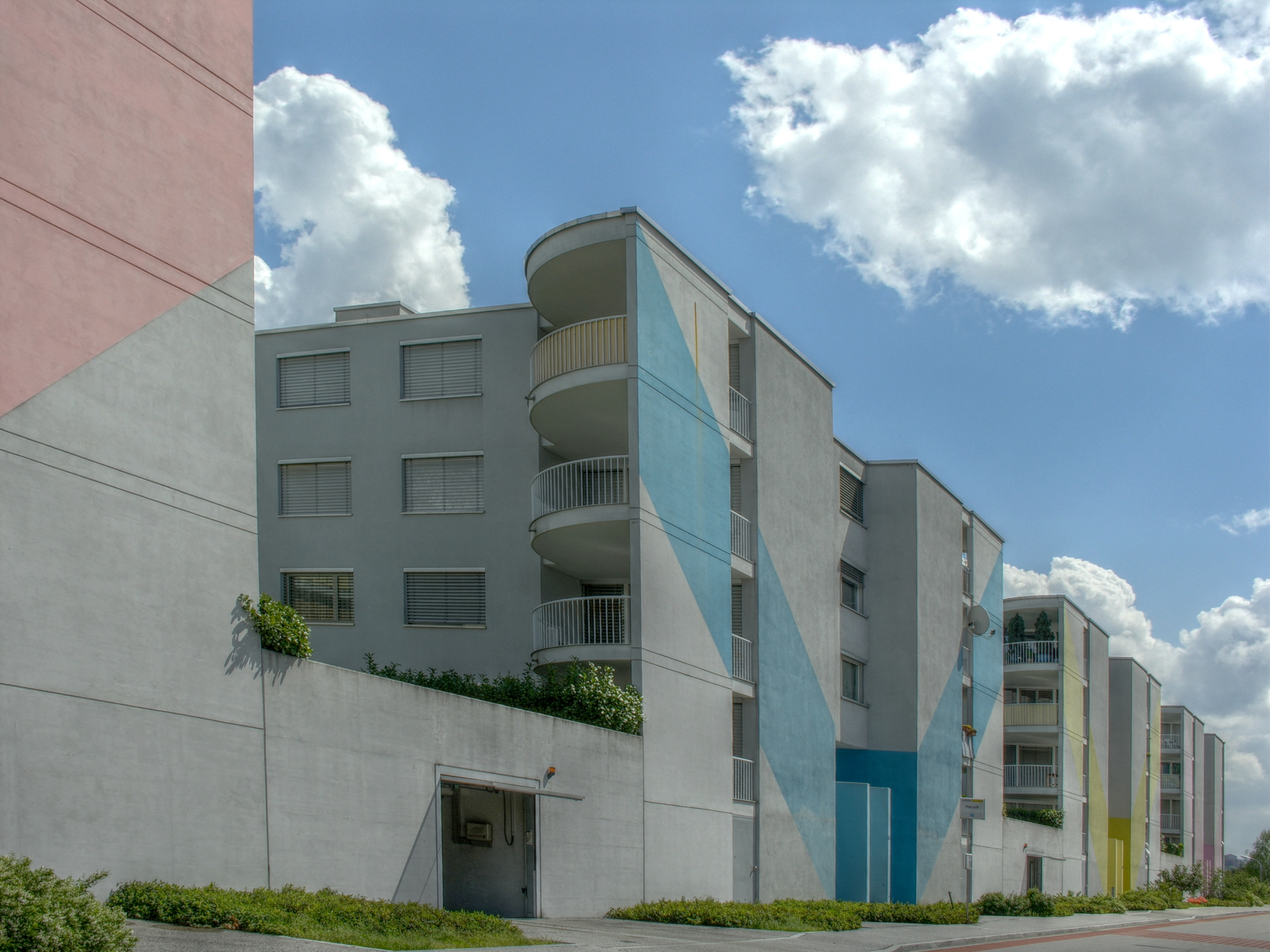 Morbio Inferiore, Tessin, Switzerland - Rowhouses in Via Pascuritt